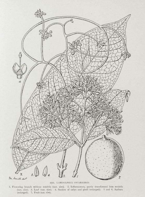 Landolphia owariensis. 1. Flowering branch without tendrils (nat. size). 2. Inflorescence, partly transformed into tendrils (nat. size). ; 3. Leaf (nat. size). ; 4. Section of calyx and pistil (enlarged). ; 5 and 6. Anthers (enlarged). ; 7. Fruit (nat. size)